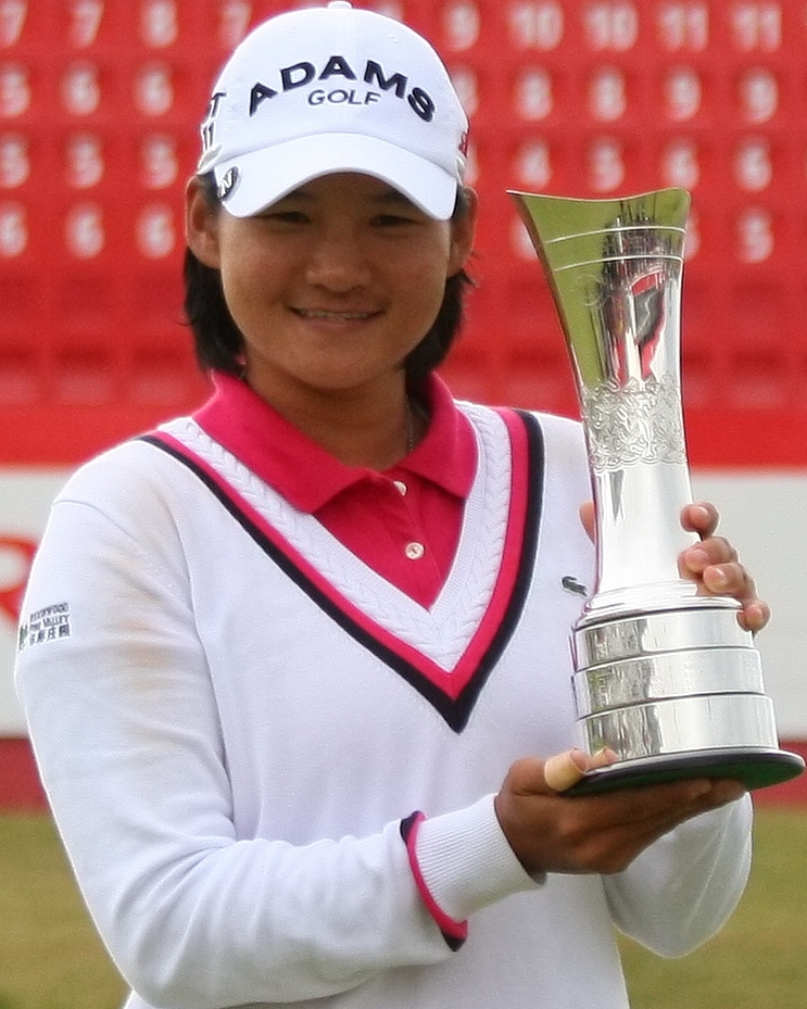 Cropped picture of Yani Tseng holding the Women's British Open trophy in 2011.